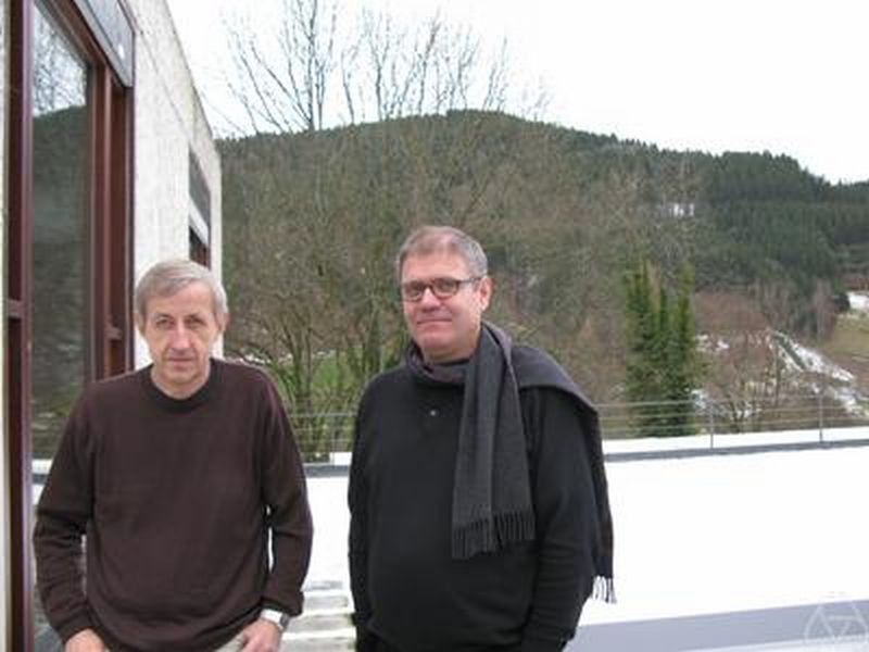 Anton Bovier (right), Erwin Bolthausen (left), Oberwolfach 2008